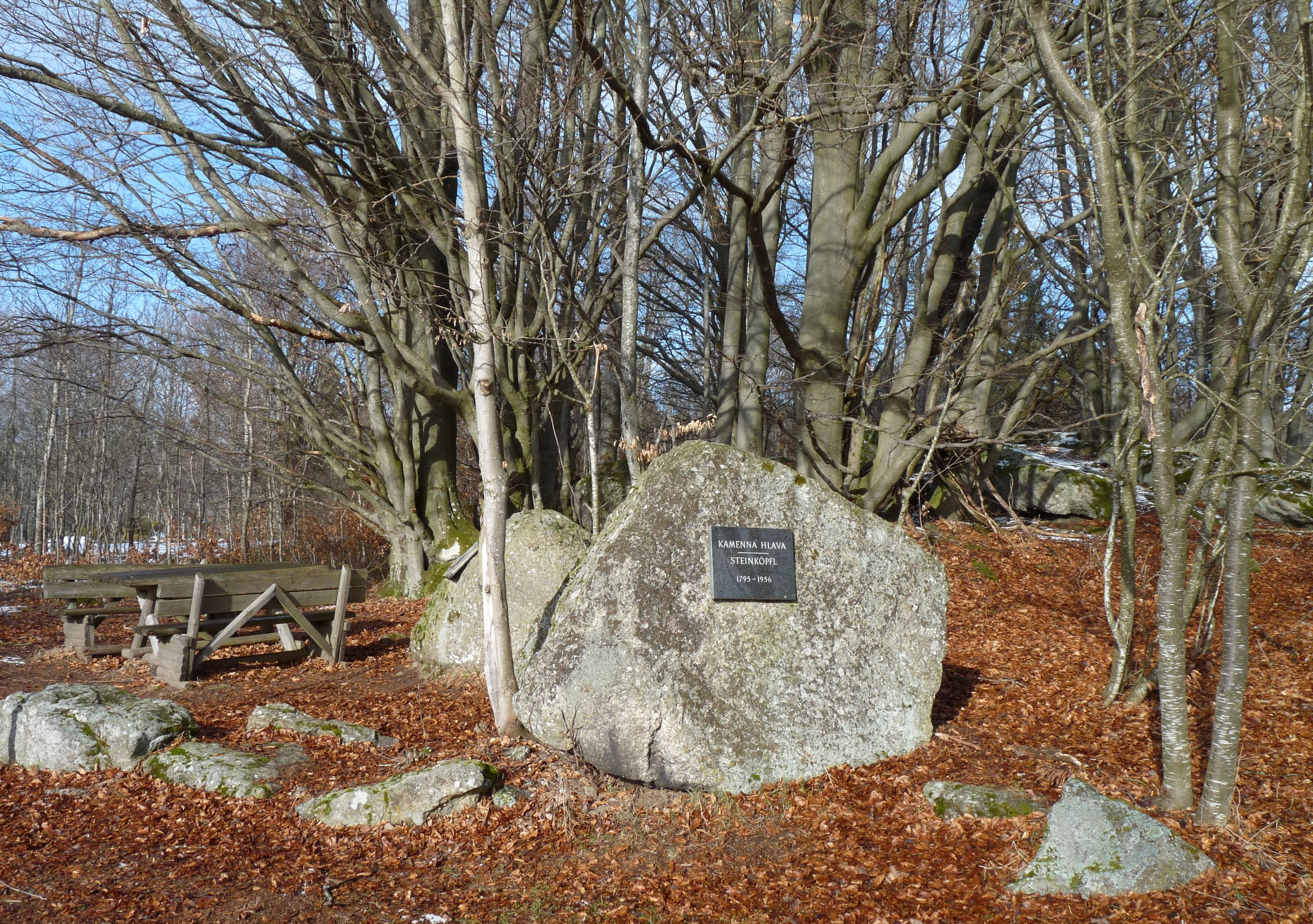 Memorial of the abandoned village of Kamenná Hlava in the Bohemian Forest, north-east of the municipality of Stožec, Prachatice District, Czech Republic.